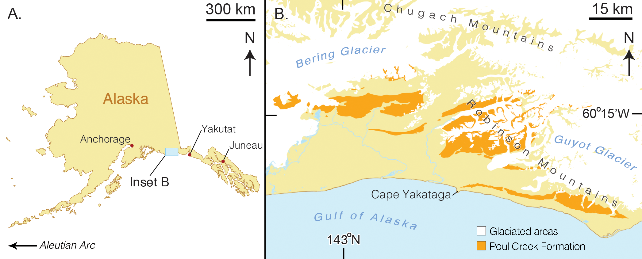 Map of type locality for Arktocara yakataga (USNM 214830). (A) a map of the state of Alaska, showing major Alaskan cities. (B) simplified geologic map of the Yakutat City and Borough based on the USGS 1971 map by Don J. Miller (available at All exposures of the Poul Creek Formation in the Yakutat City and Borough (orange), are potential type localities for Arktocara yakataga (USNM 214830). Yellow represents exposures from all other lithological units, not mapped here.